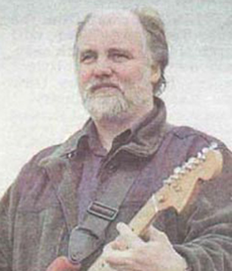 Picture taken at South Tyneside College 1999 in support of the Steel Town musical